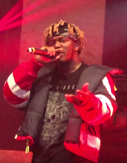 KSI performing in London on New Age tour, 2019